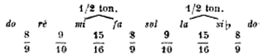 Mixolydian mode as explained by Rauf Yekta Bey